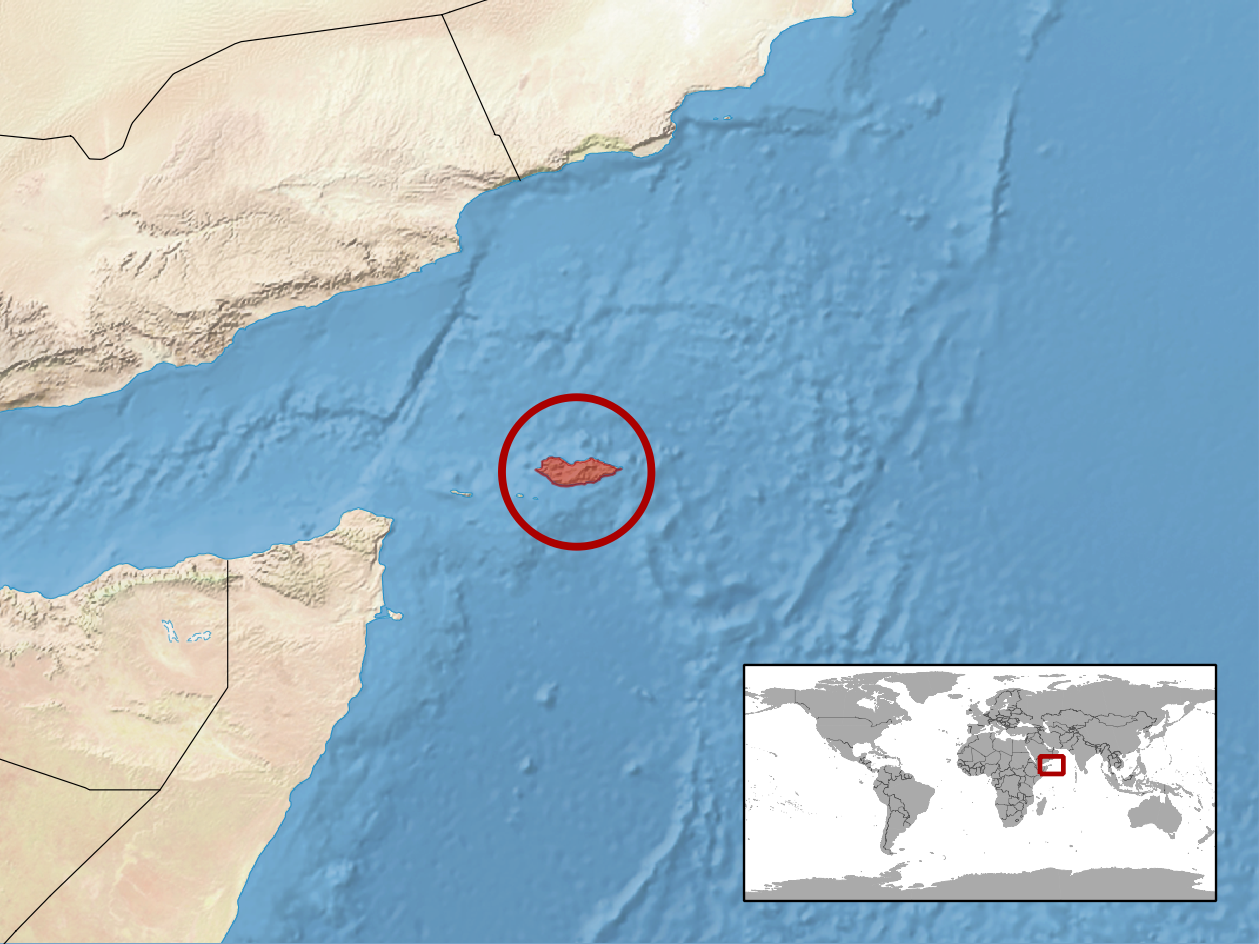 geographic distribution of Hemidactylus pumilio (Native: Yemen (Socotra))